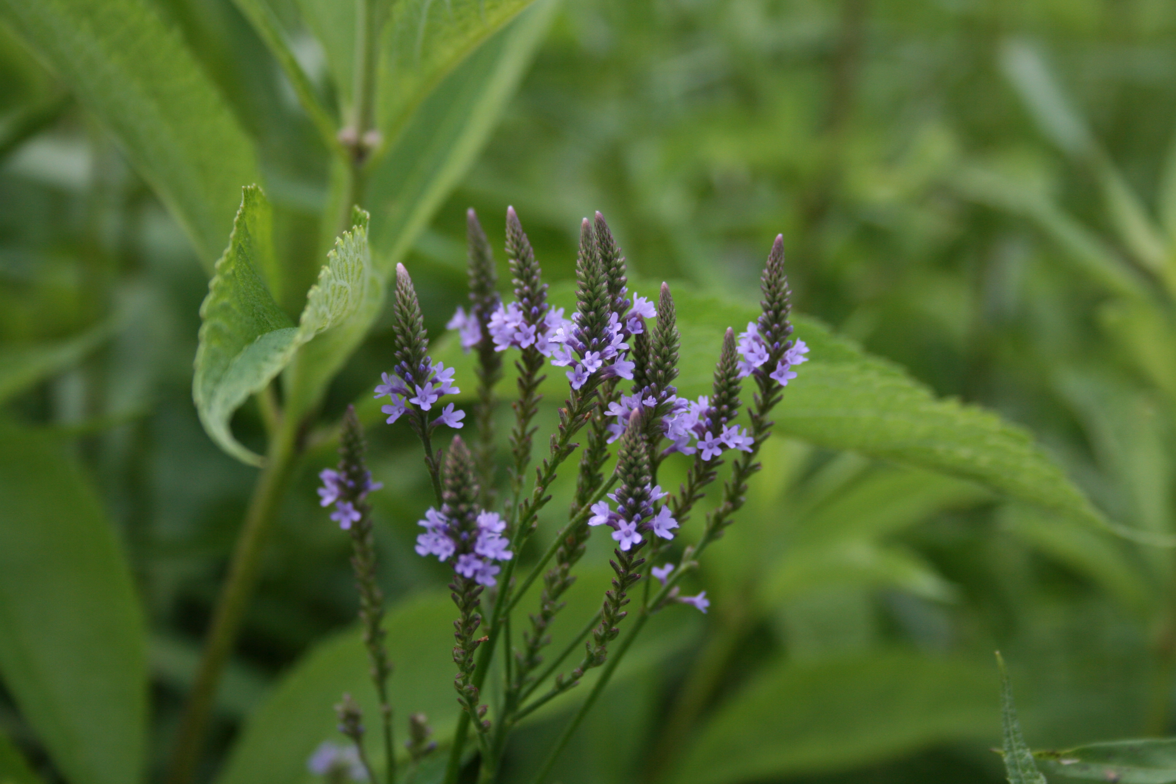 A Verbena hastata found in the Portage, Michigan.